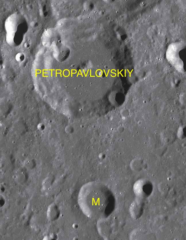 Part of the chart LAC-35 used for the presentation